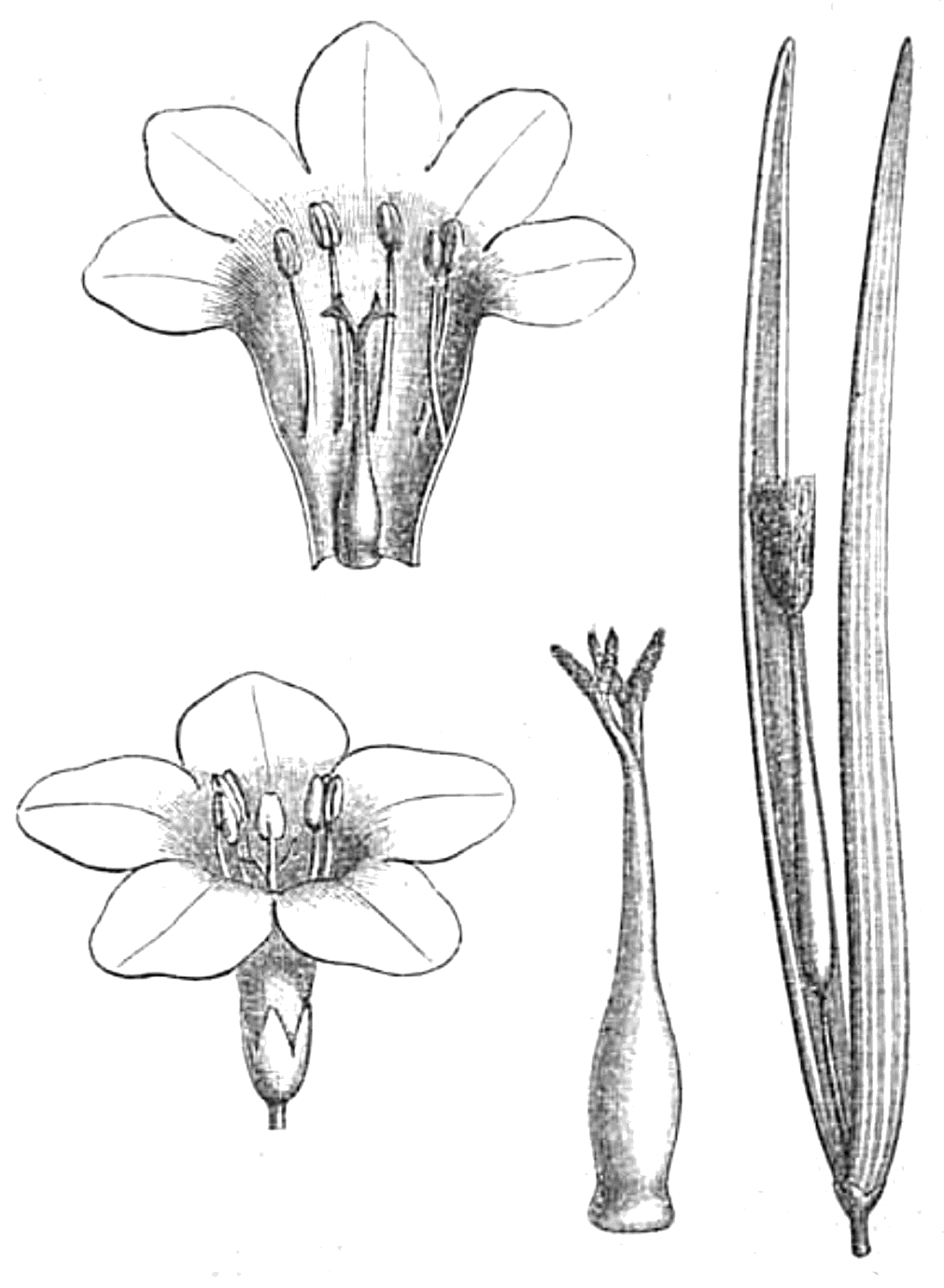 Plocosperma buxifolium. top left/left: flower; bottom center: ovary; right: fruit